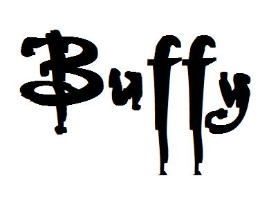 The entertitle of Buffy made on Paint.